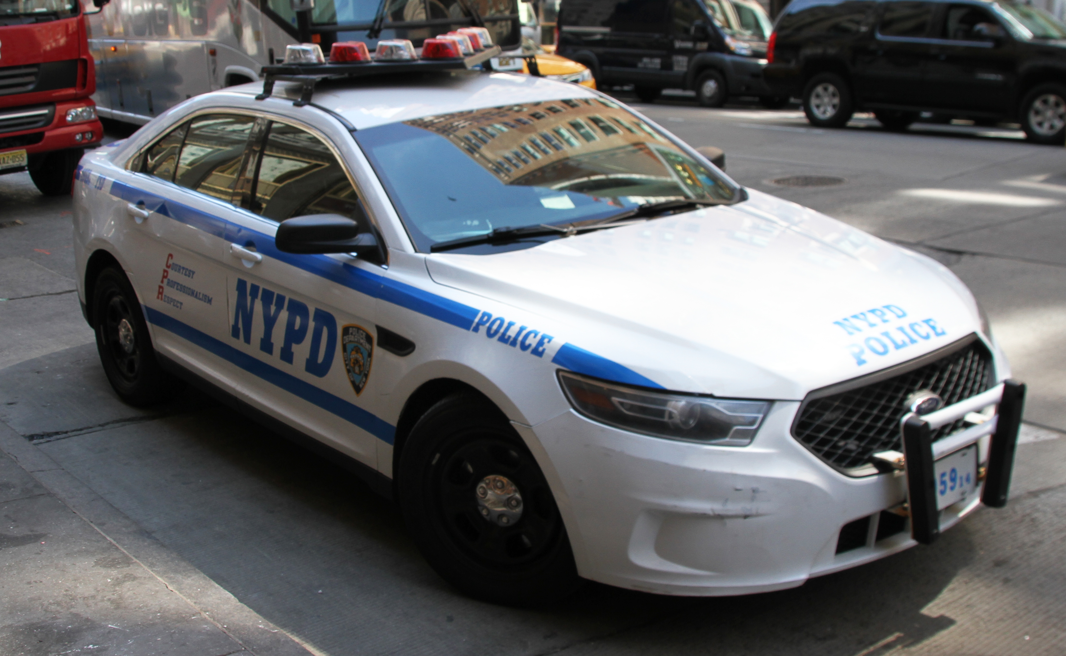 NYPD Police Car 4